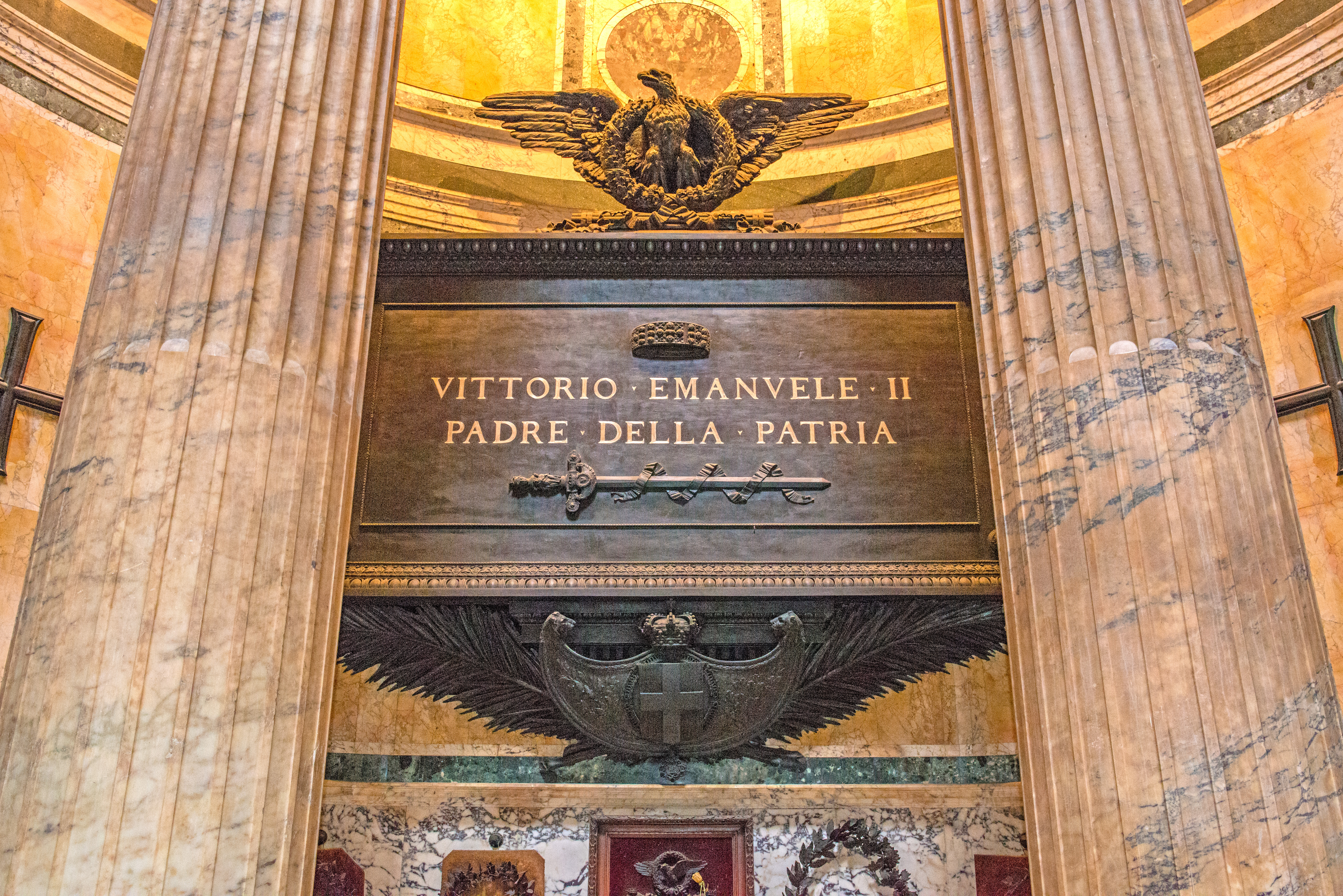 The Pantheon Rome Italy February 2013